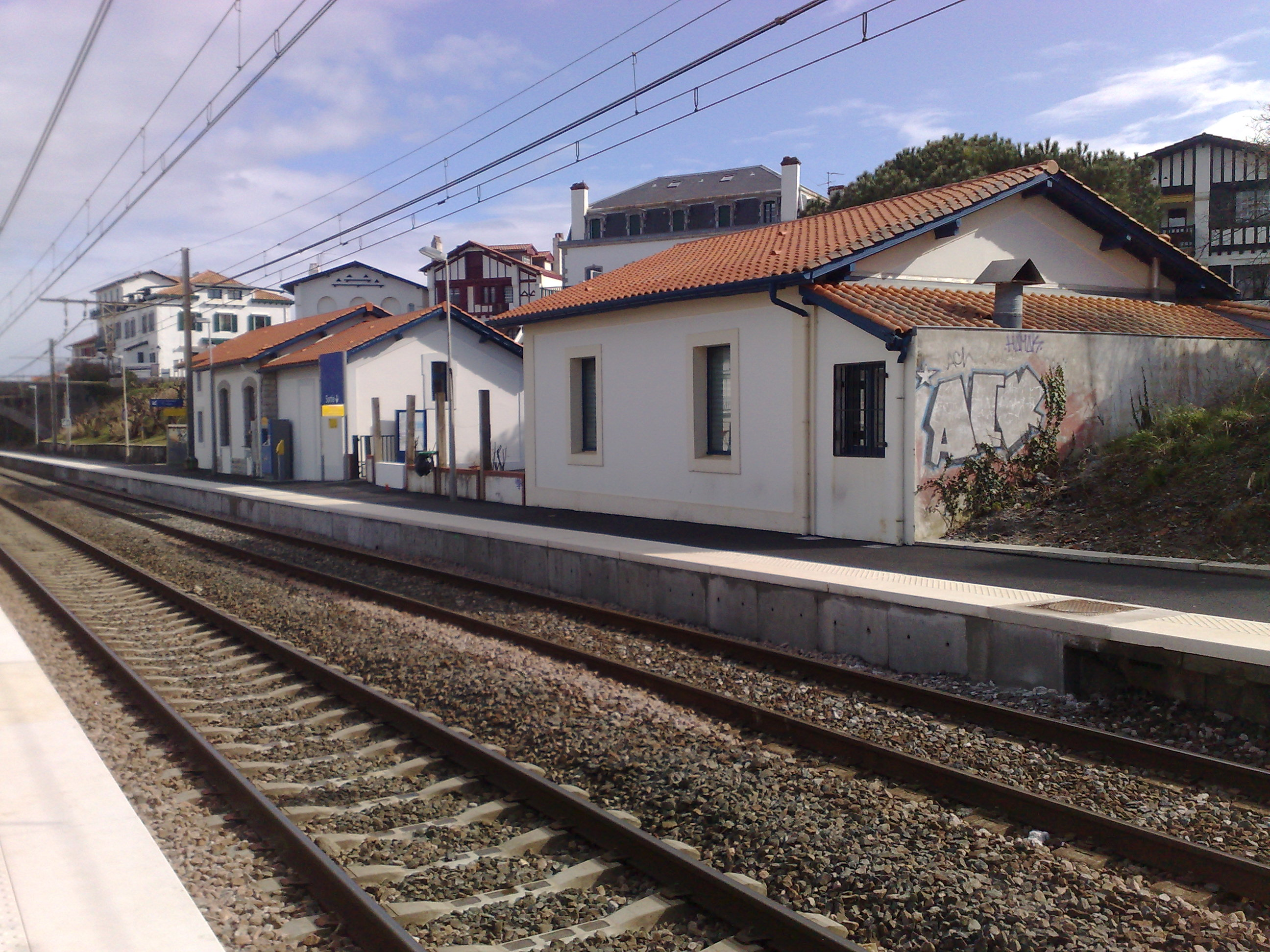 Getaria / Guéthary train station, Lapurdi / Labourd, Basque Country.